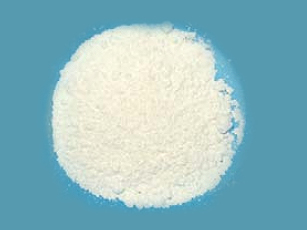 Mephedrone sample